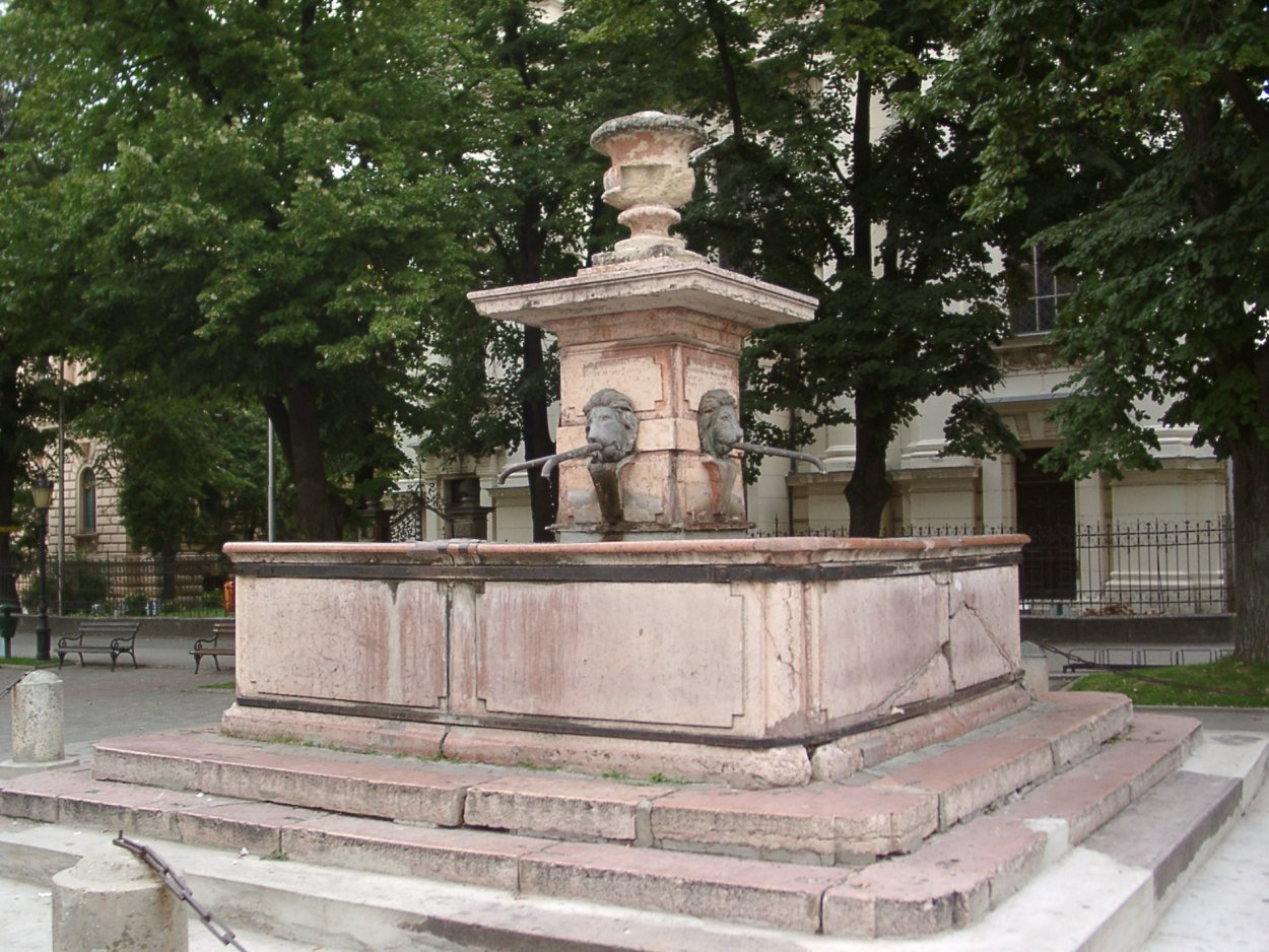 Fountain "Four Lions", in Sremski Karlovci, Serbia